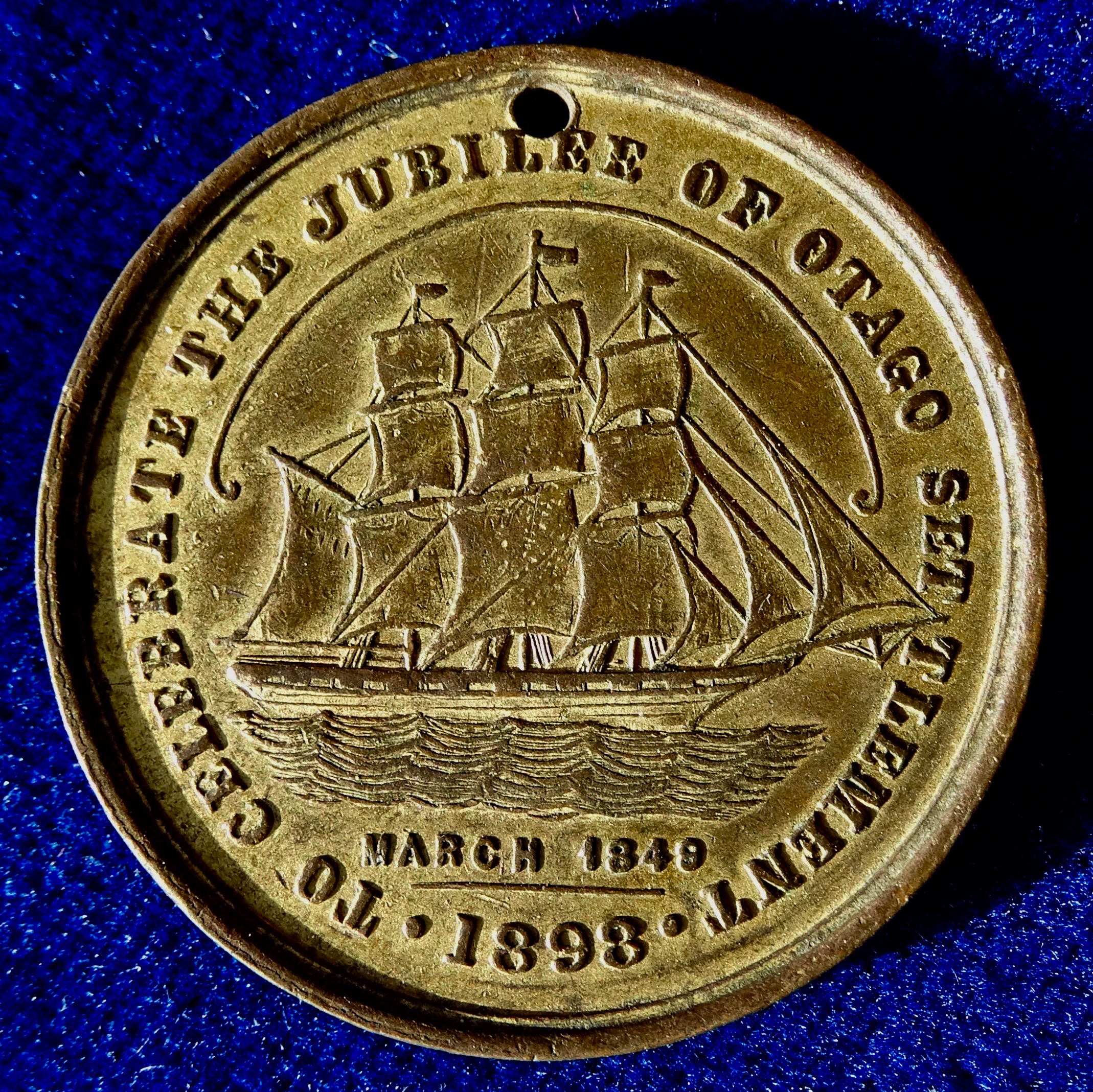 Jubilee of Otago Medal 1898, the John Wickliffe at Port Chalmers 1848. Gilt bronze medallion, d.= 31 mm. Victoria 1837 - 1901 The John Wickliffe sailing r. in Port Chalmers. 1 line below: "MARCH 1848". Surrounding: "TO CELEBRATE THE JUBILEE OF OTAGO SETTLEMENT · 1898 ·"/ 2 conjoined heads of Queen Victoria l., around: "QUEEN VOCTORIA'S 60TH YEAR OF REIGN - 1837 TO 1897 -". Morel 1897-98/1 Condition: EXTREMELY FINE+, holed at top as usual